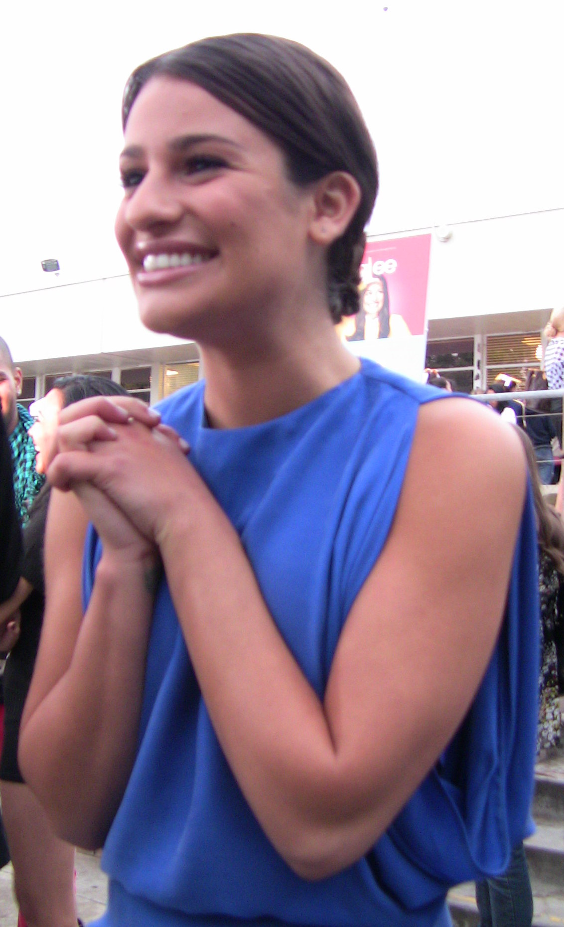 Actress Lea Michele at premiere party of TV series Glee, Santa Monica, California.